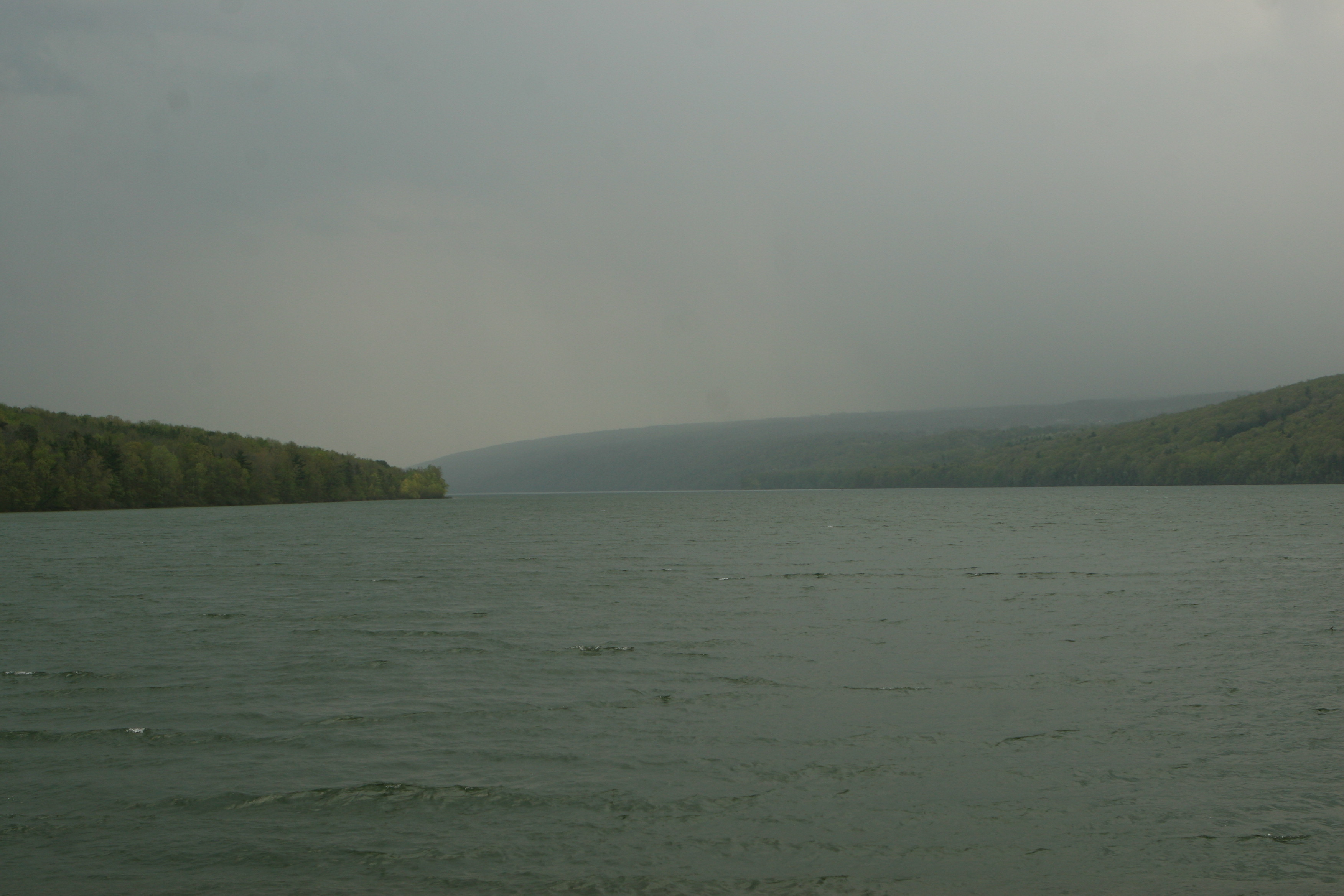 Spring rain storm blowing over the south end of the lake.